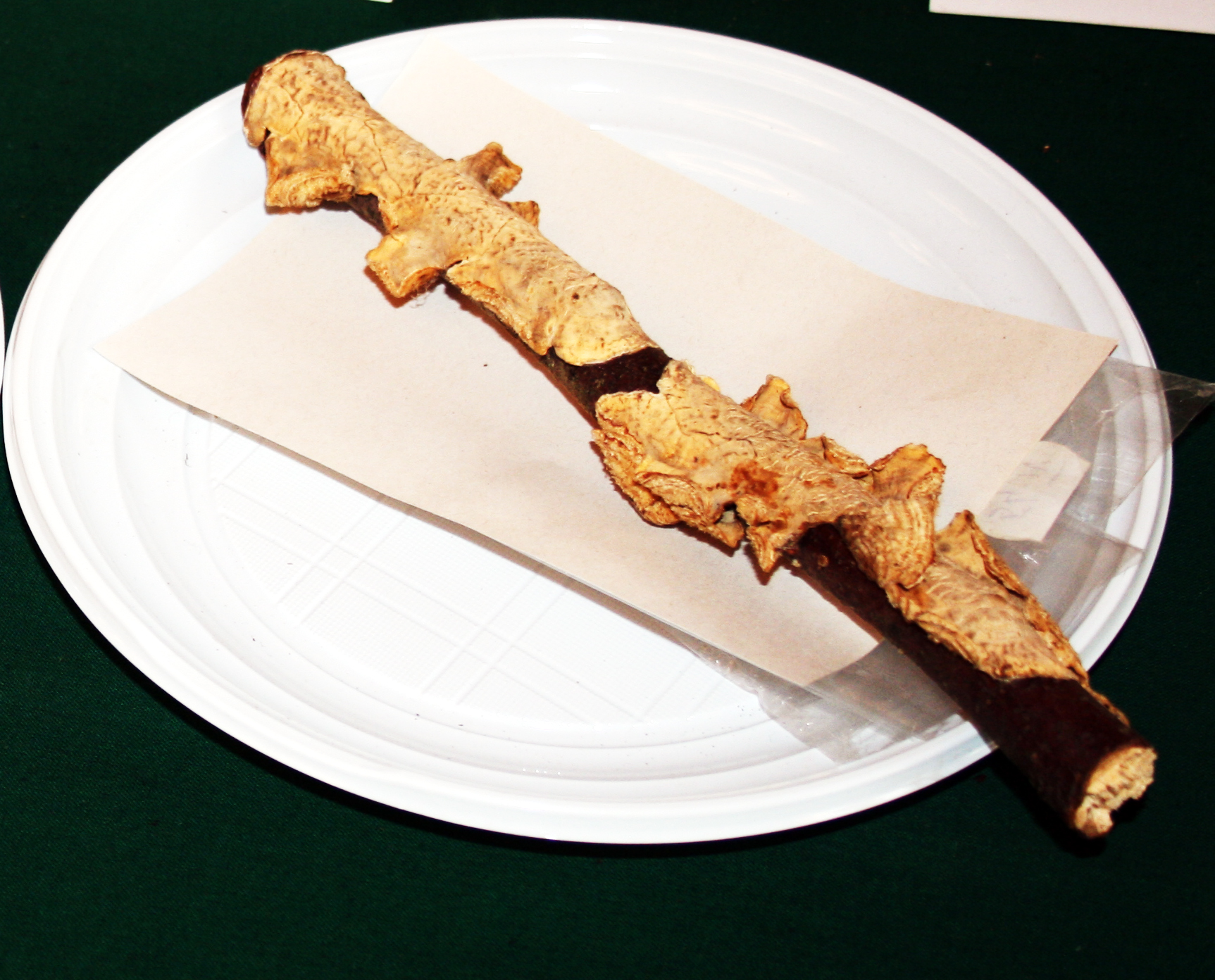 Stereum rameale on Prague international mushroom exhibition 2008, Czech Republic